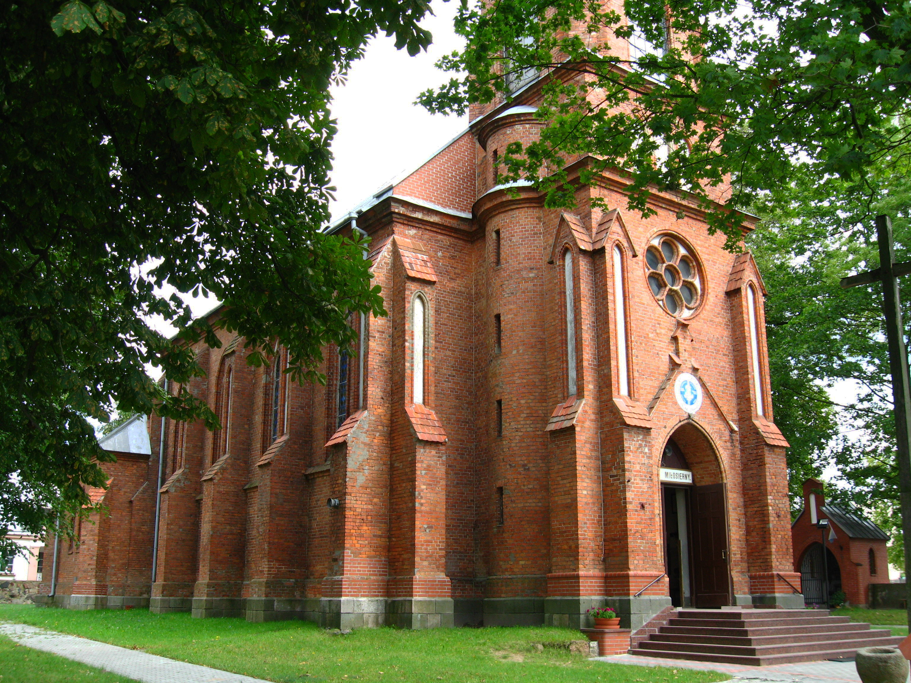 Roman–catholic church of Saint Adalbert of Prague, from year 1919